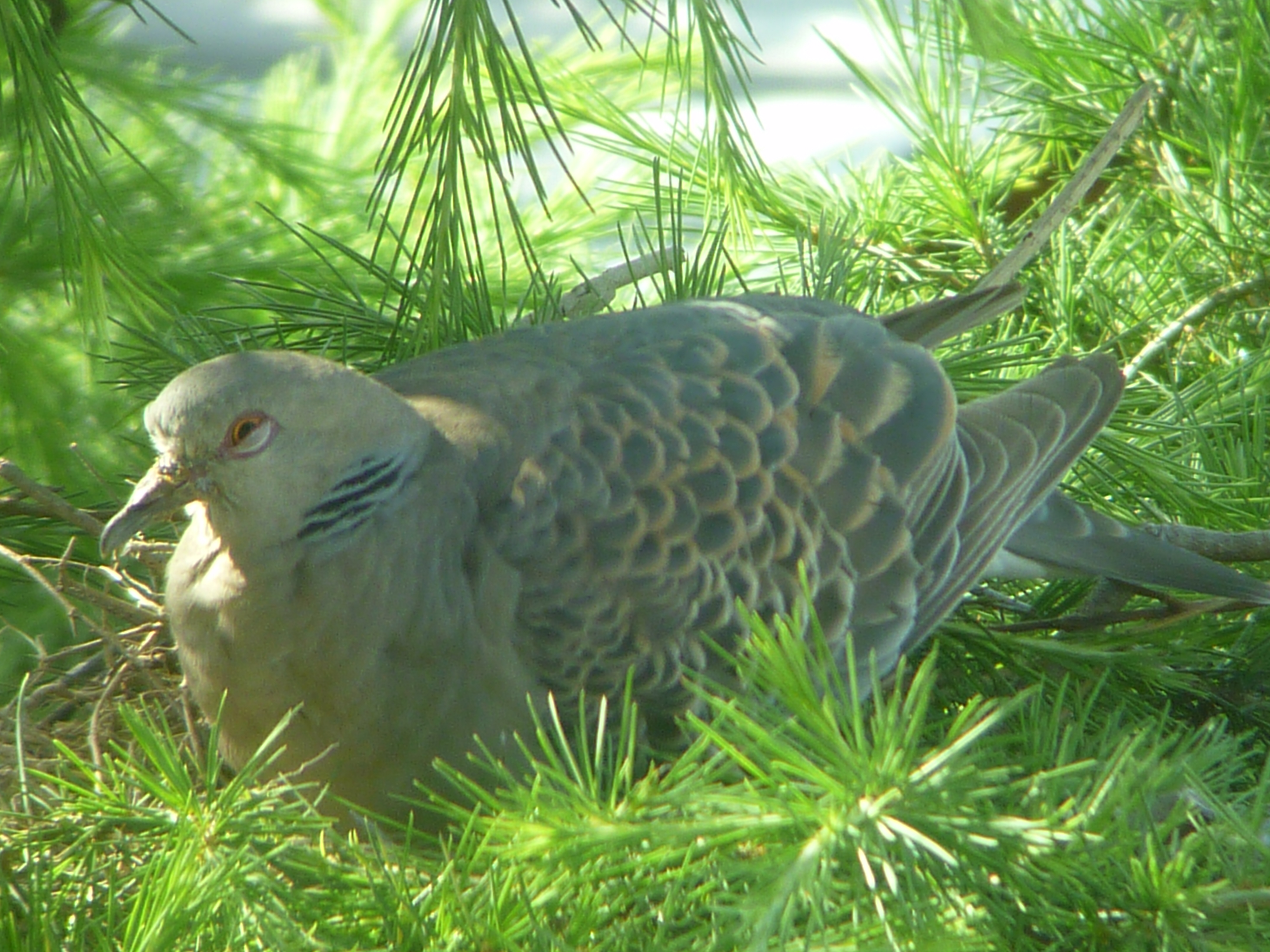 Streptopelia orientalis,Oriental Turtle-dove（The nest）